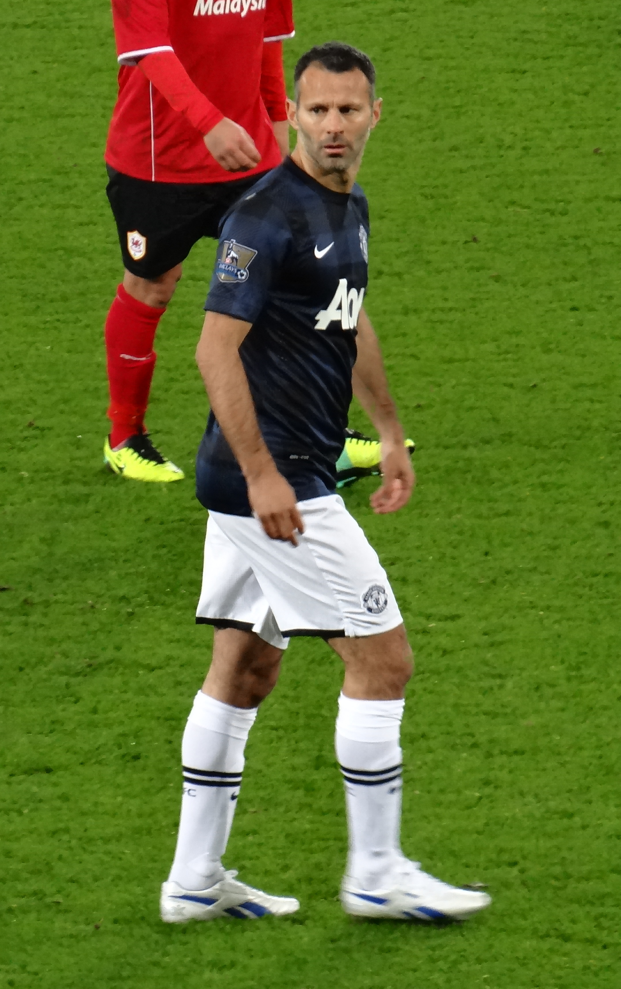 Ryan Giggs playing for Manchester United in November 2013.